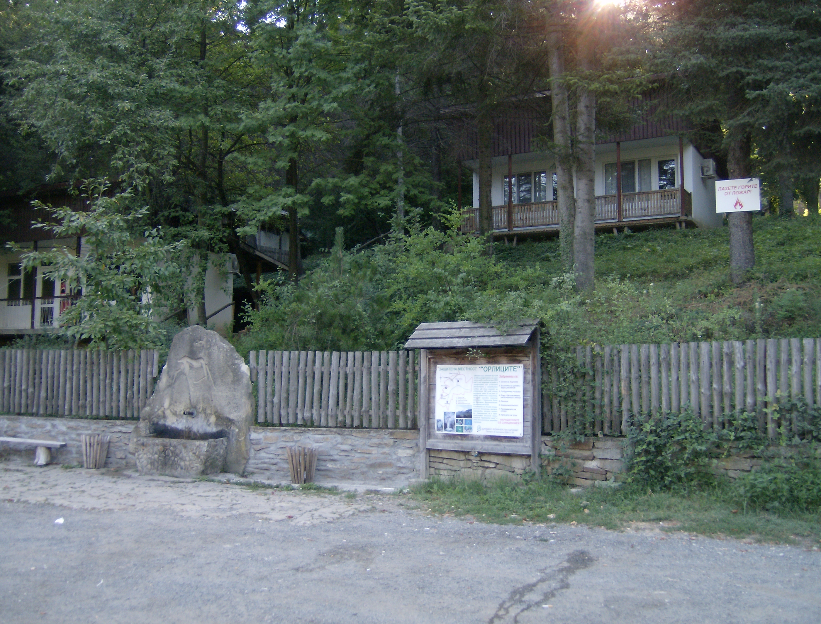 Rishki pass - Nemoi dere